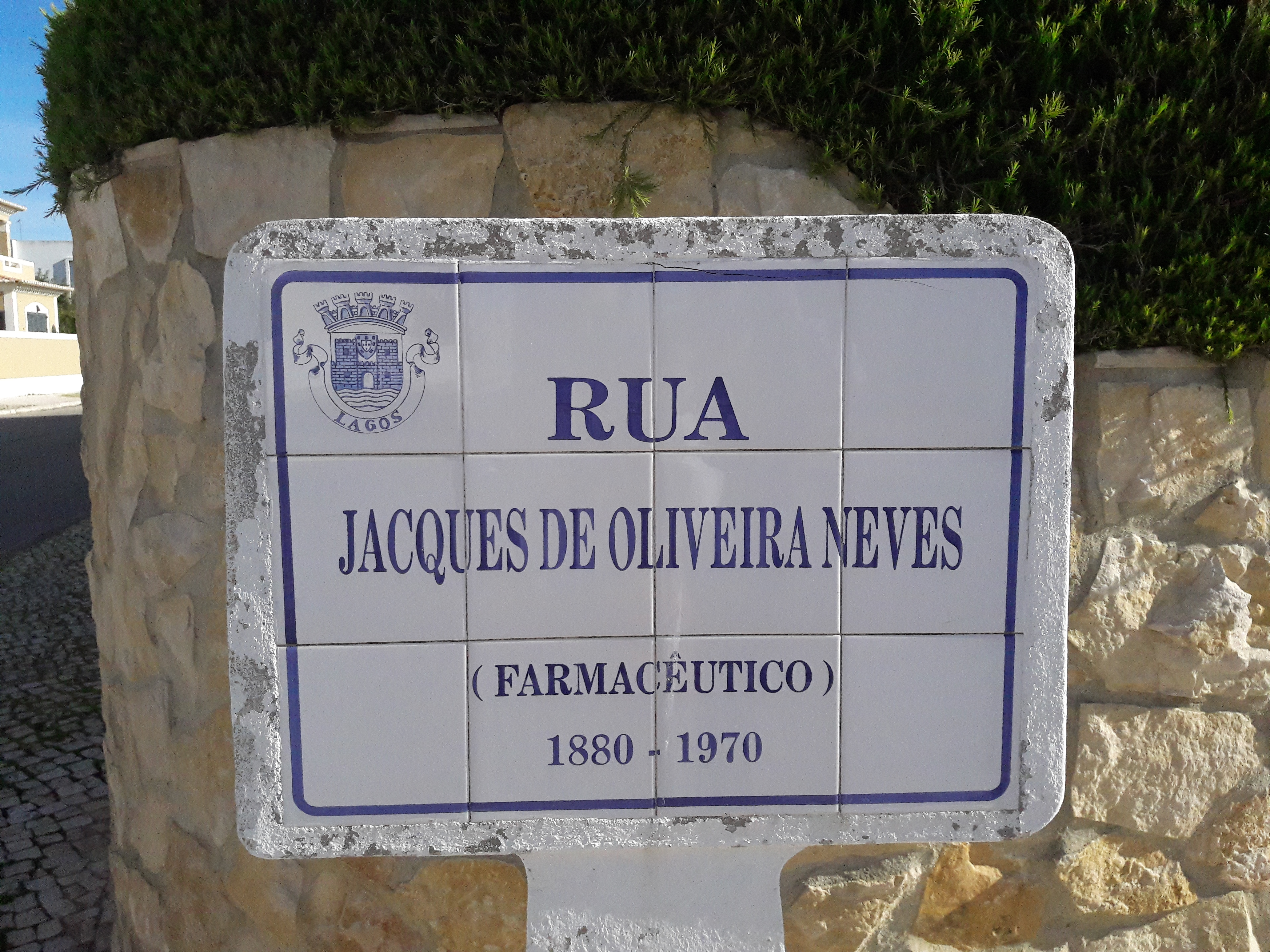 Street sign of Rua Jacques de Oliveira Neves, in the city of Lagos, in southern Portugal.